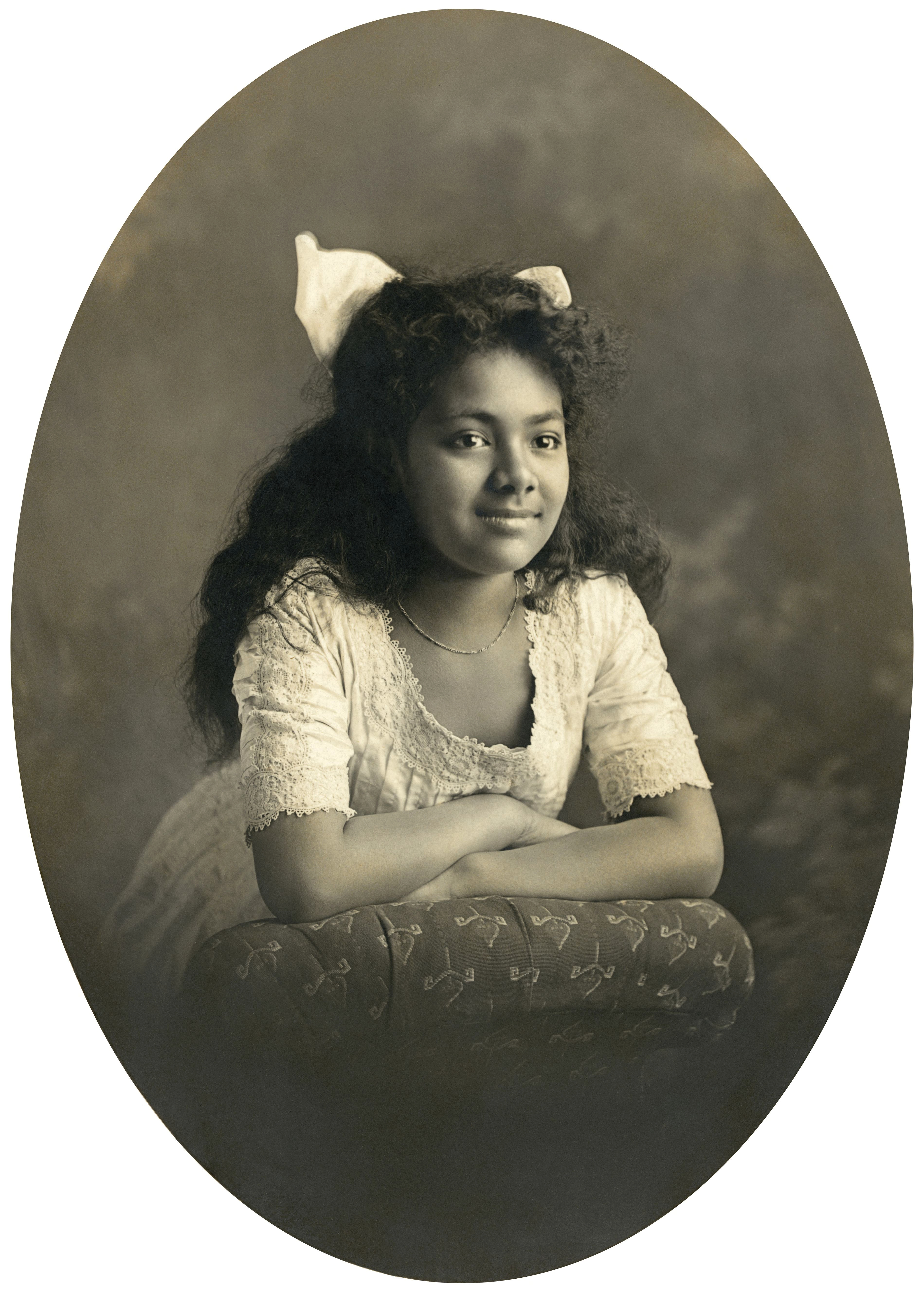 Salote Tupou III as a child.